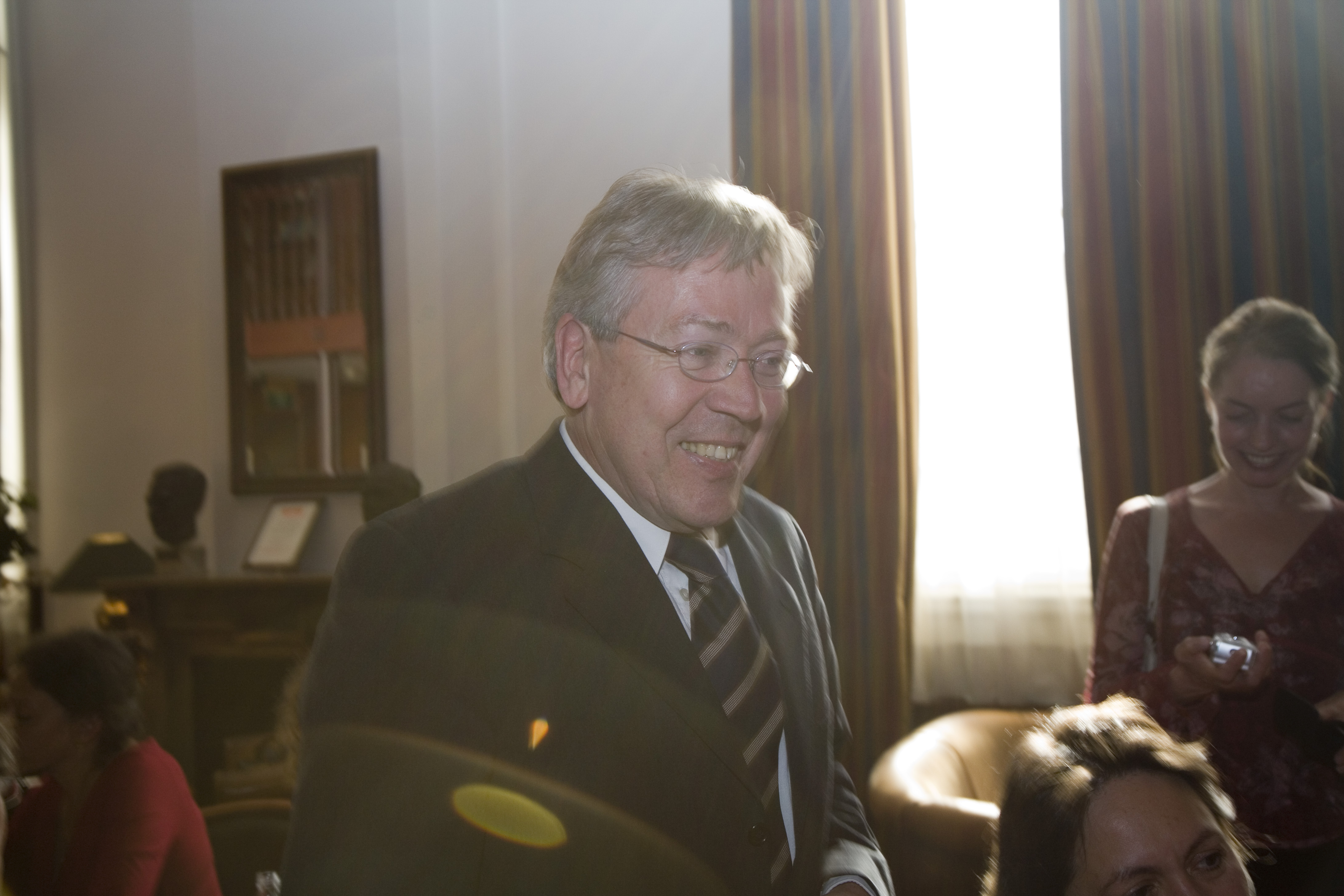 Aart Broek, Dutch literary critic and sociologist; photographed at the occasion of the honorary dinner for Derek Walcott, Nobel Prize in Literature 1992, Amsterdam, May 20th 2008